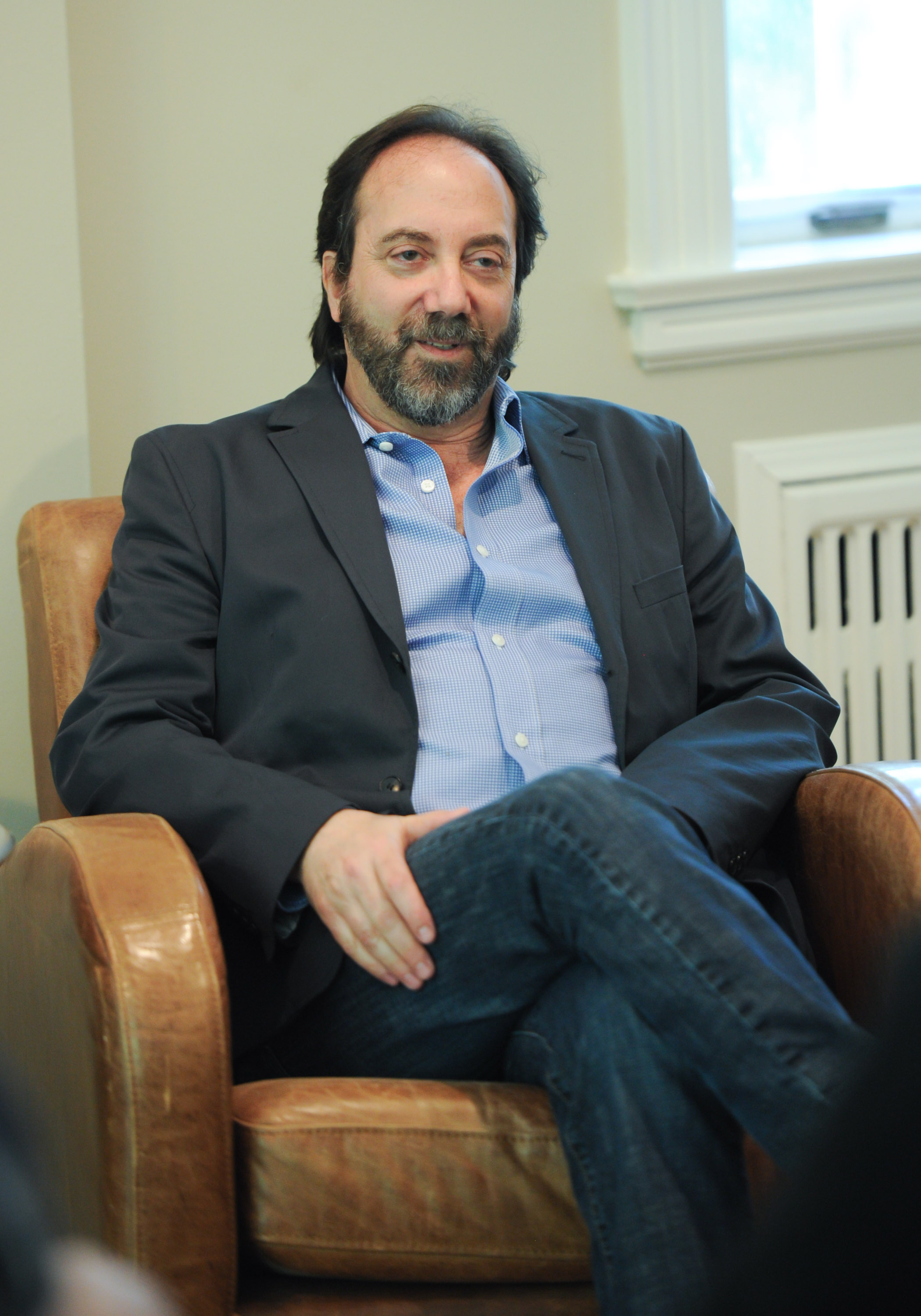 CFC welcomed Academy Award nominee Stephen Rivkin for a special master class with past and upcoming residents. Rivkin has edited such acclaimed films as Avatar, Pirates of the Caribbean (1,2 and 3), The Hurricane, and Ali. Photo by Sam Santos.